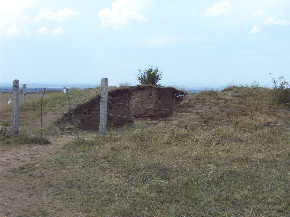 One of the excavated kurgans at the Issyk kurgan site in Kazakhstan.